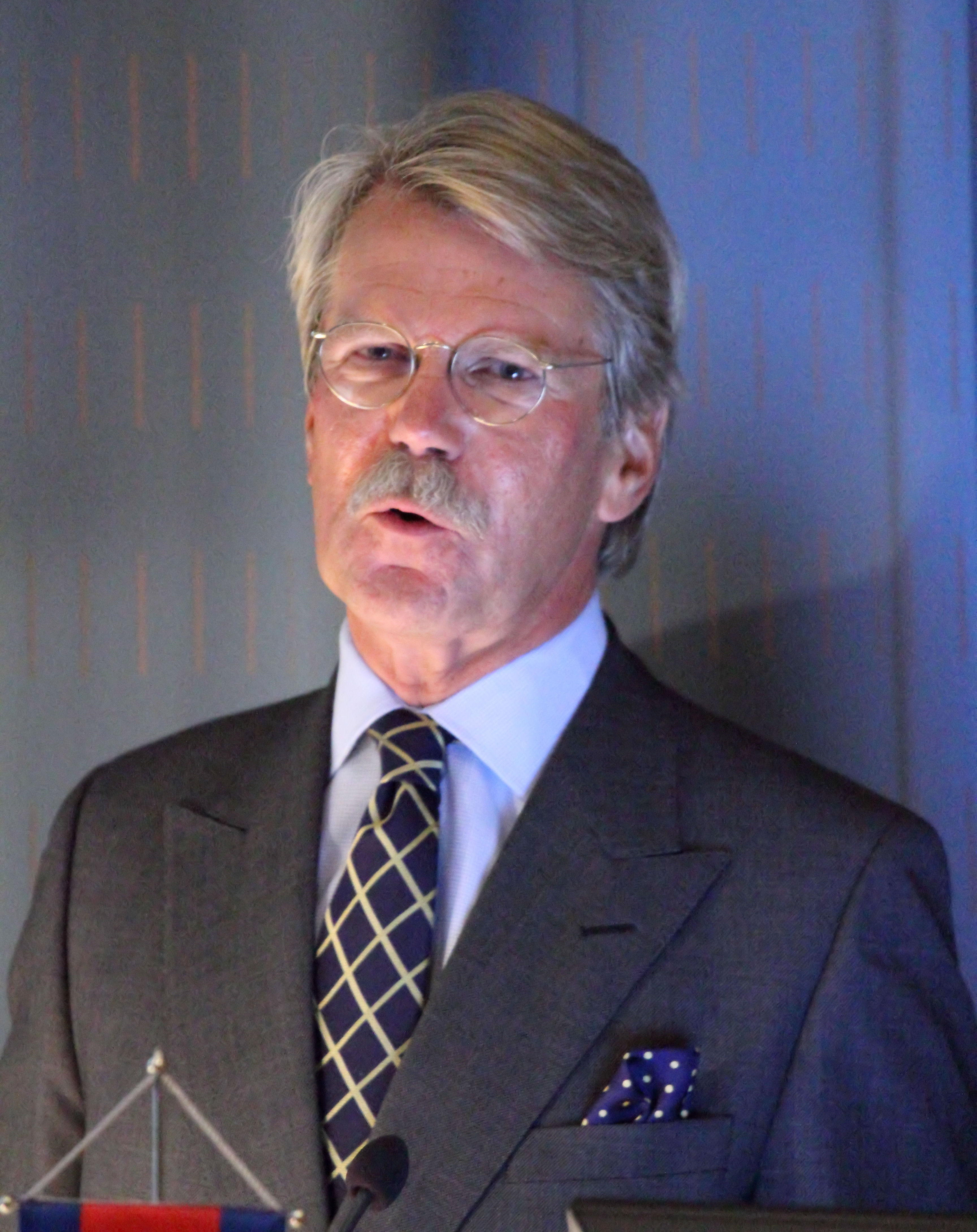 Björn Wahlroos, Finnish investor